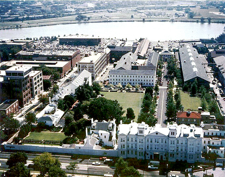 View of the central part of the Yard, looking south, circa the early 1990s. M Street SE, the Yard's northern boundary, is in the forground, with the Latrobe Gate in the lower right. At the foot of the Admiral Leutze Park parade ground, in the middle of the view, is the Building 57-44-108 and 67-46 complex, which housed most of the Naval Historical Center. Building 70, which held the Navy Museum, is the long building at right. The small building to the left of Building 70 is Building # 1, which also held Naval Historical Center offices. The bow of the display ship Barry (DD-933) is visible in the upper right.